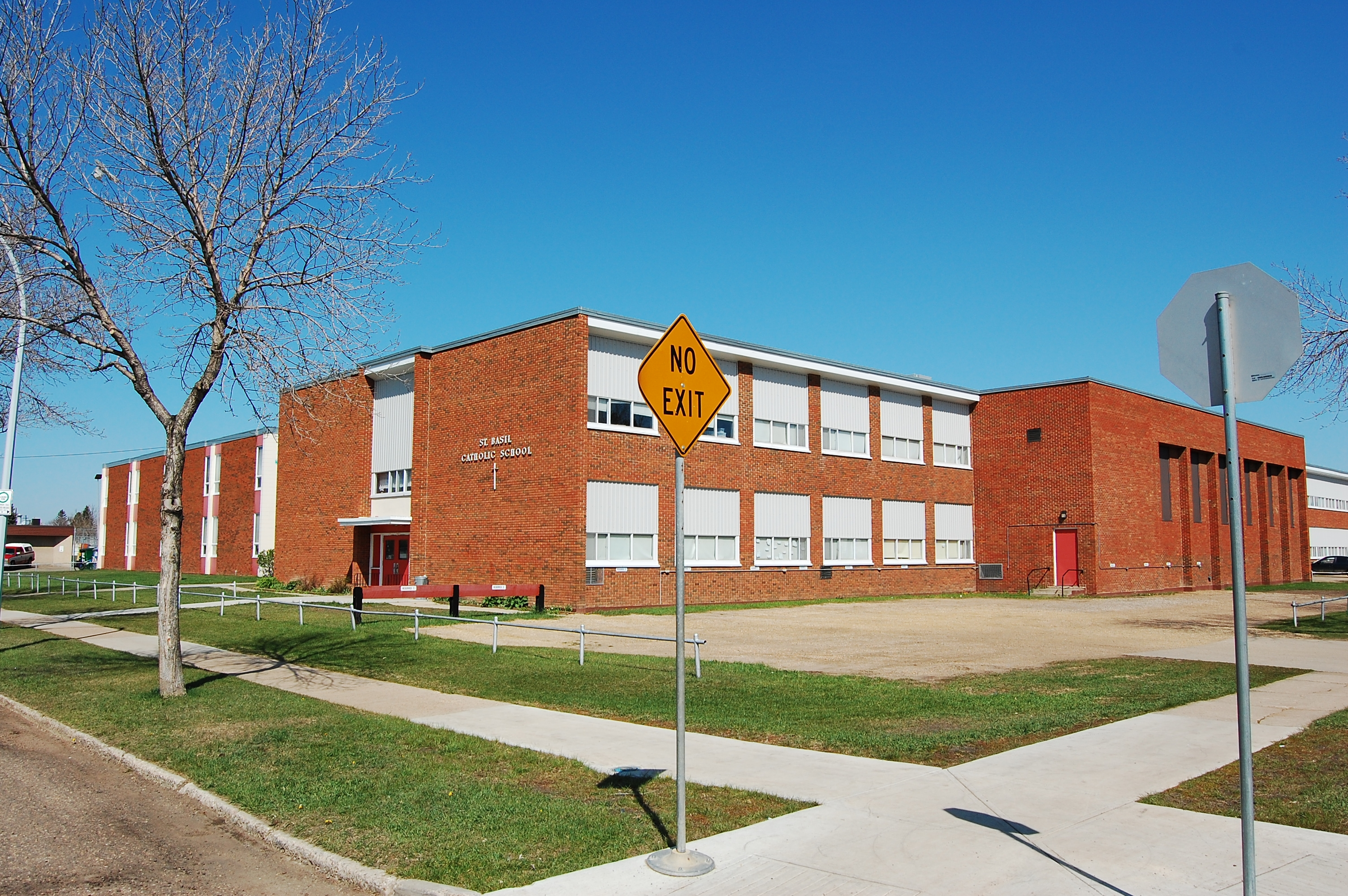 St. Basil Catholic School in Spruce Avenue, Edmonton Alberta.